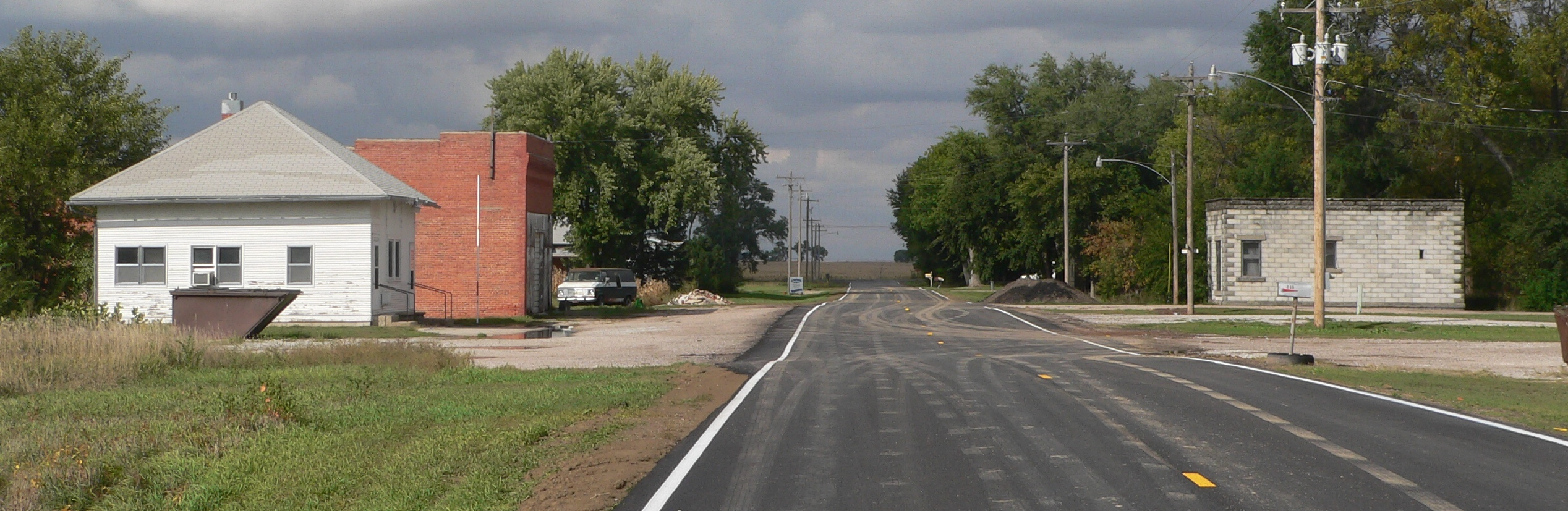 Downtown Lushton, Nebraska: Gilbert Street. Camera is facing north.